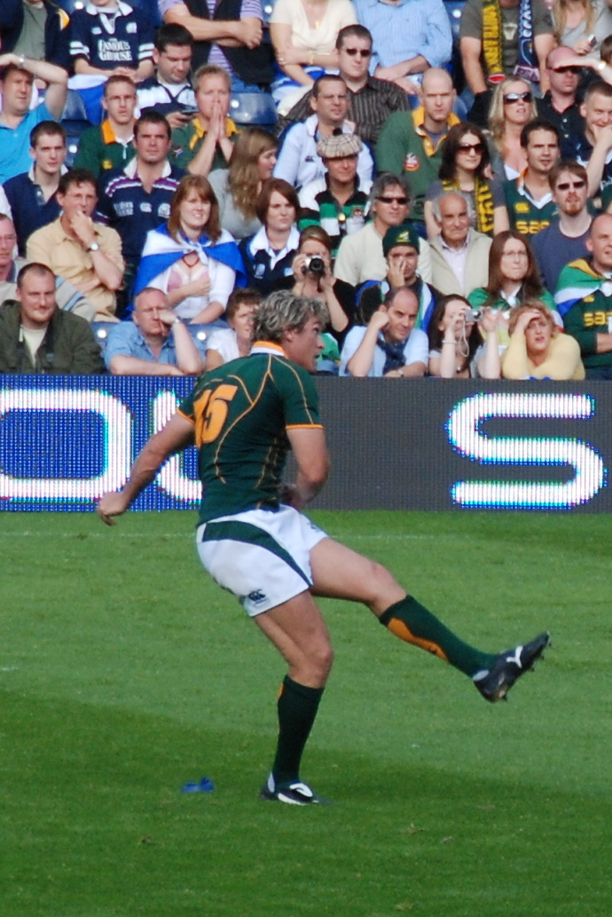 Percy Montgomery, the South Africa fullback, taking a conversion during the Scotland v South Africa game (a World Cup warm up match) at Murrayfield in August 2007.